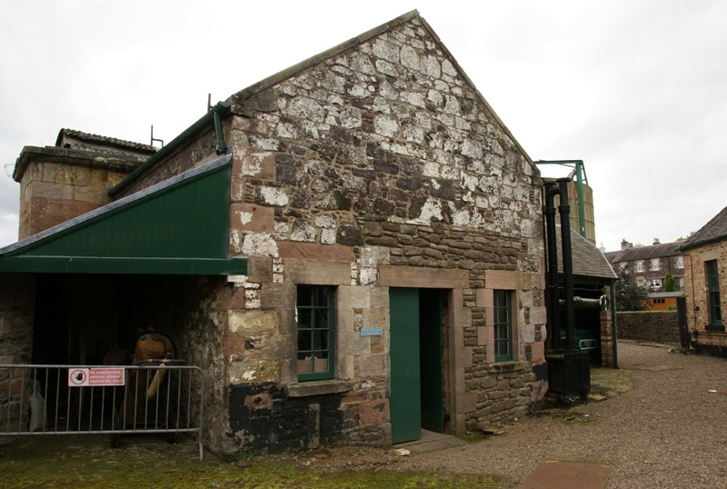 Biggar Gasworks Museum, South Lanarkshire, Scotland - original retort house, later coalstore.